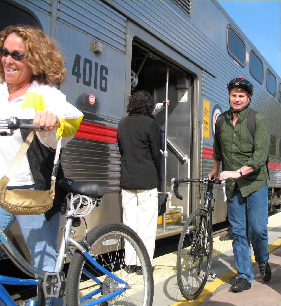 Cyclists disembark Caltrain at Palo Alto Station in Palo Alto on Bike to Work Day